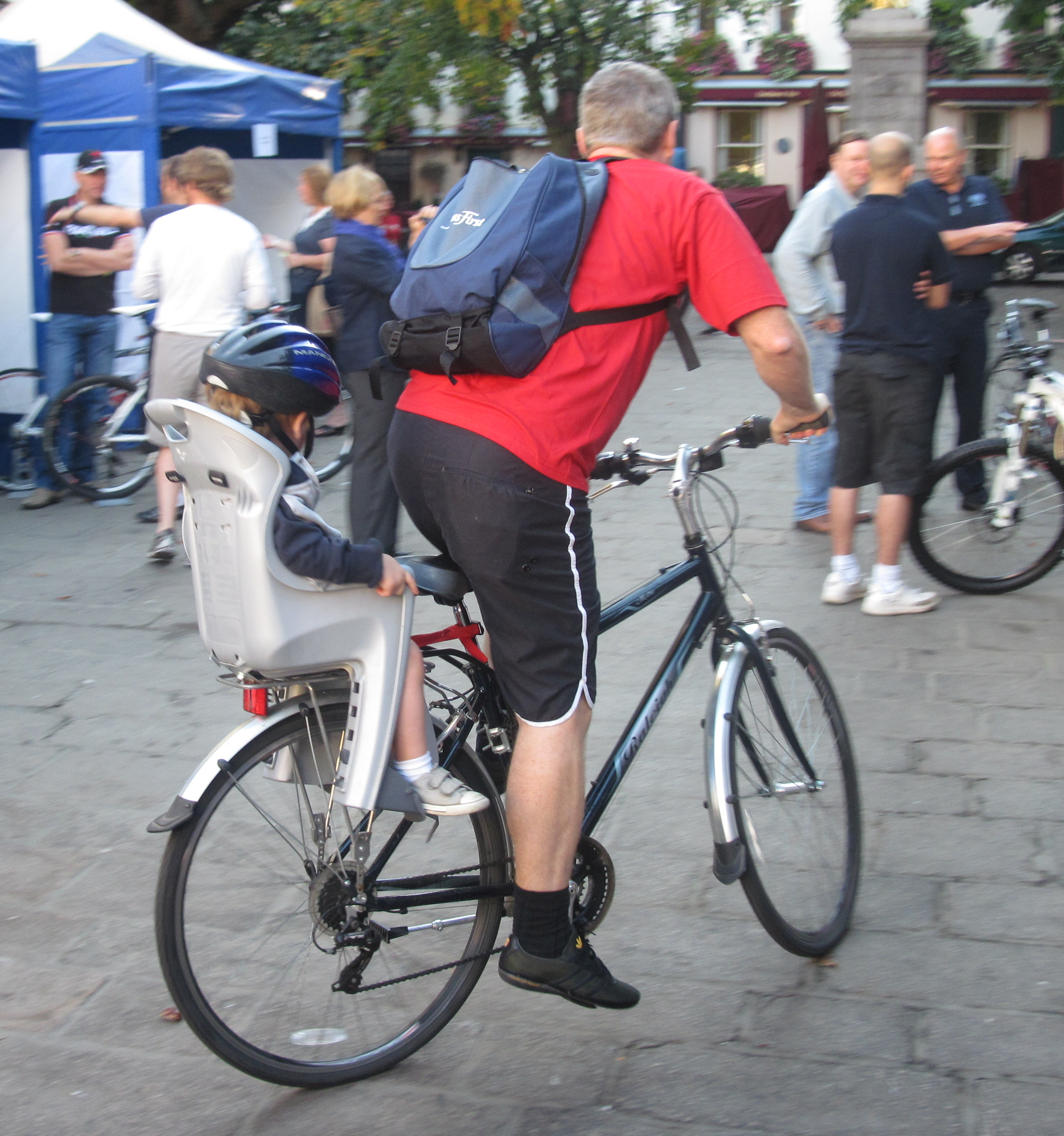 Green Travel Day, 22 September 2010. Stalls in the Royal Square greeted morning cyclists in Saint Helier, Jersey. Coffee, giveaways, bike repairs and information were on offer.